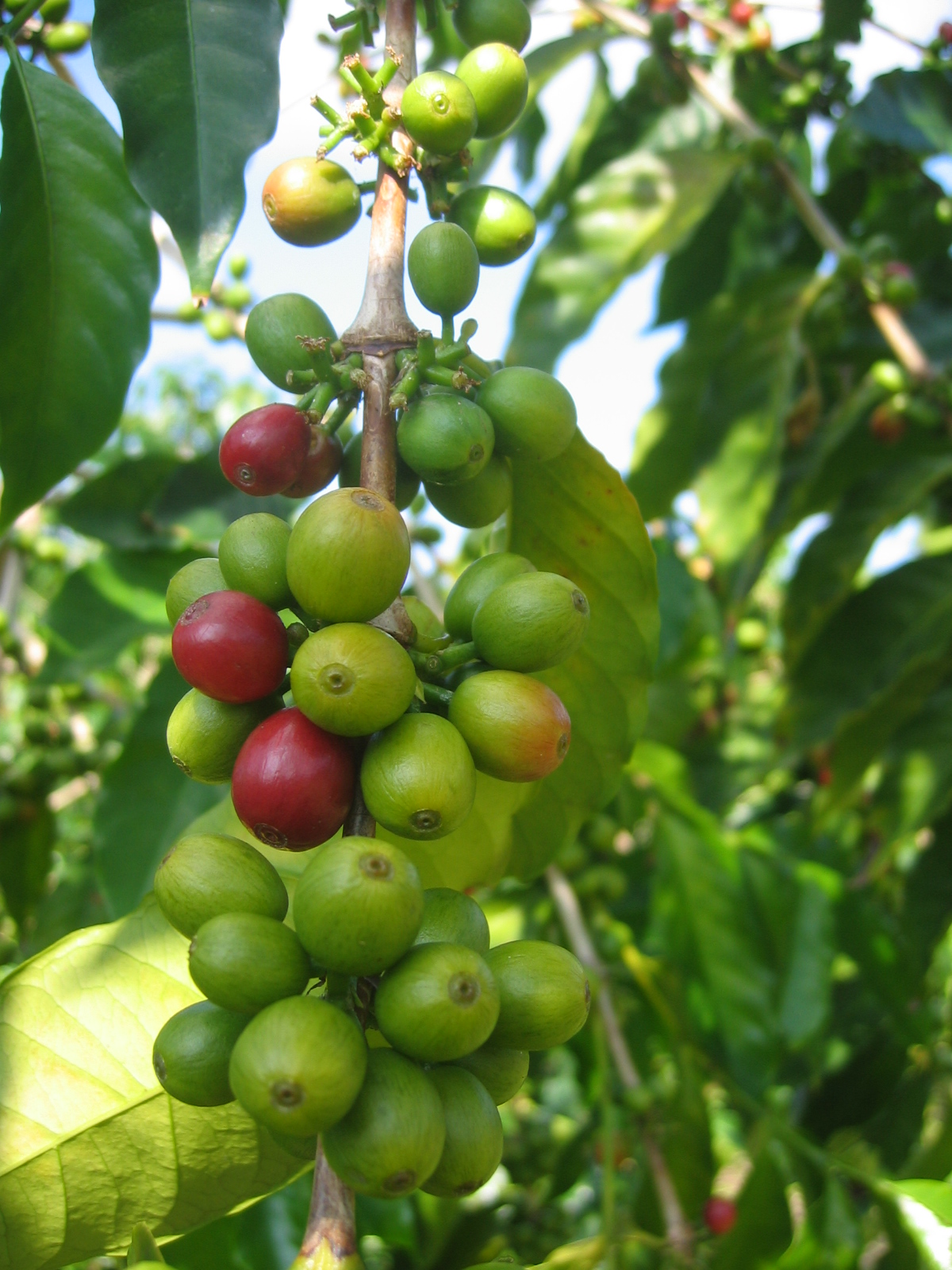 Coffee cherries - the Island of Hawaiʻi. Camera: Canon PowerShot S410 License on Flickr (2011-02-18): CC-BY-2.0 Flickr tags: coffee, hawai'i, big island